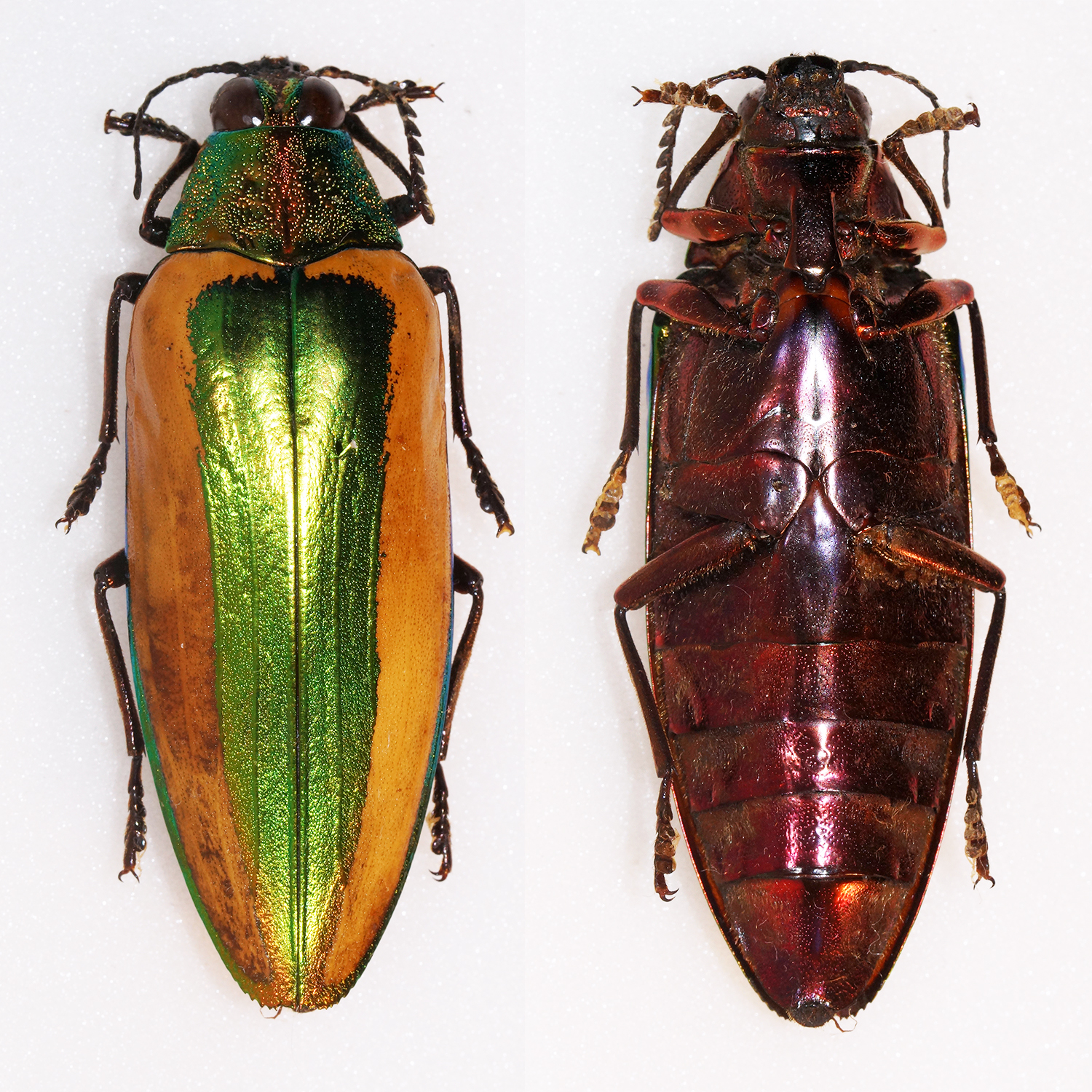 Chrysochroa limbata - Sabah - North Borneo - 56mm